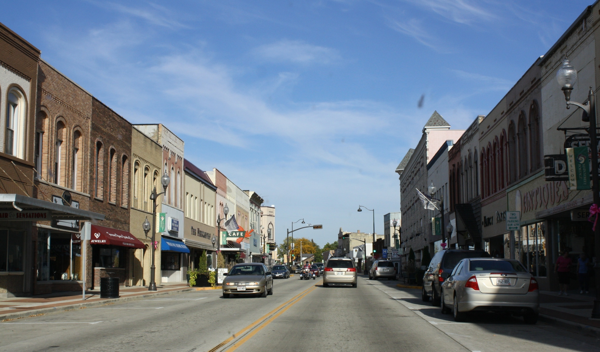 The Portage Retail Historic District in Portage, Wisconsin along Wisconsin Highway 33.